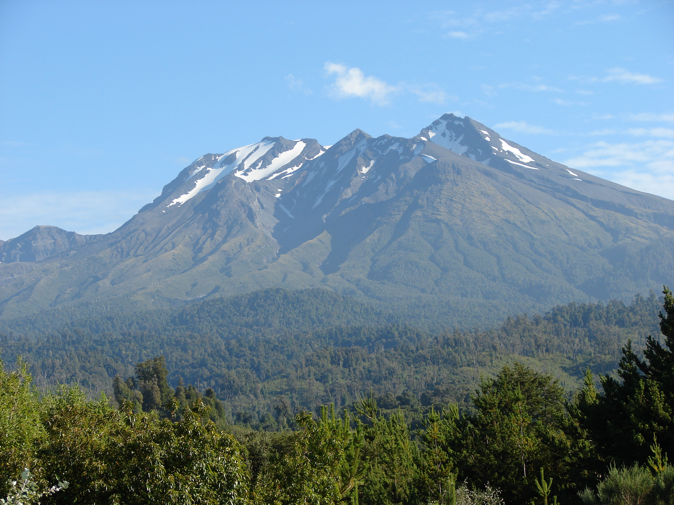 Calbuco Volcano (Volcán Calbuco) as seen from the north from the shores of Llanquihue Lake (Lago Llanquthue) from Road 225.